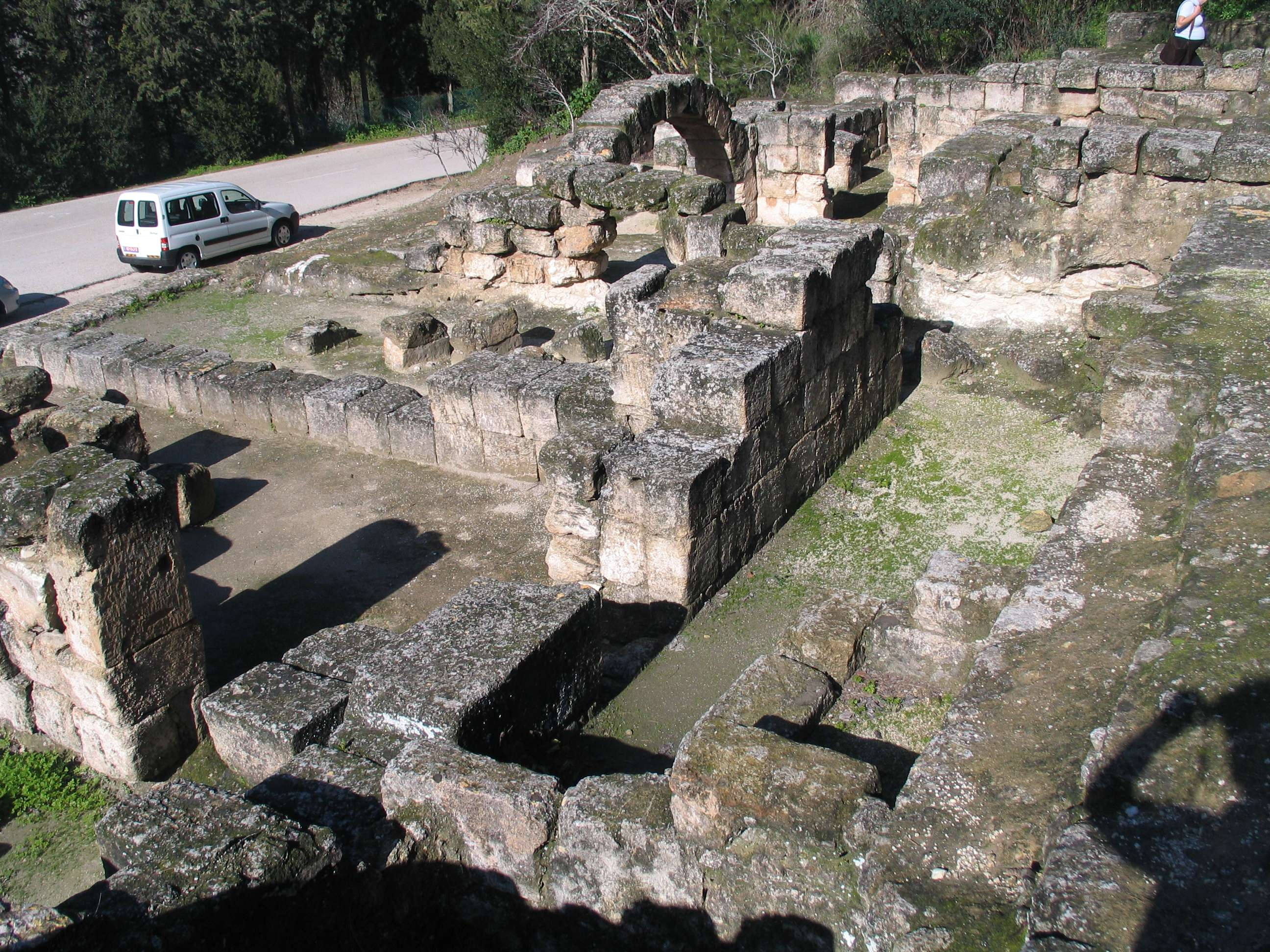 Beyt Sheraim synagogue.